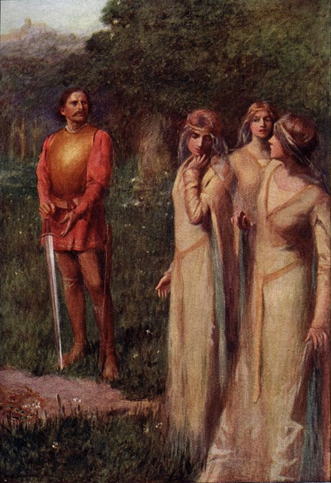 Milos Vojinovic and the three Maidens (1914)